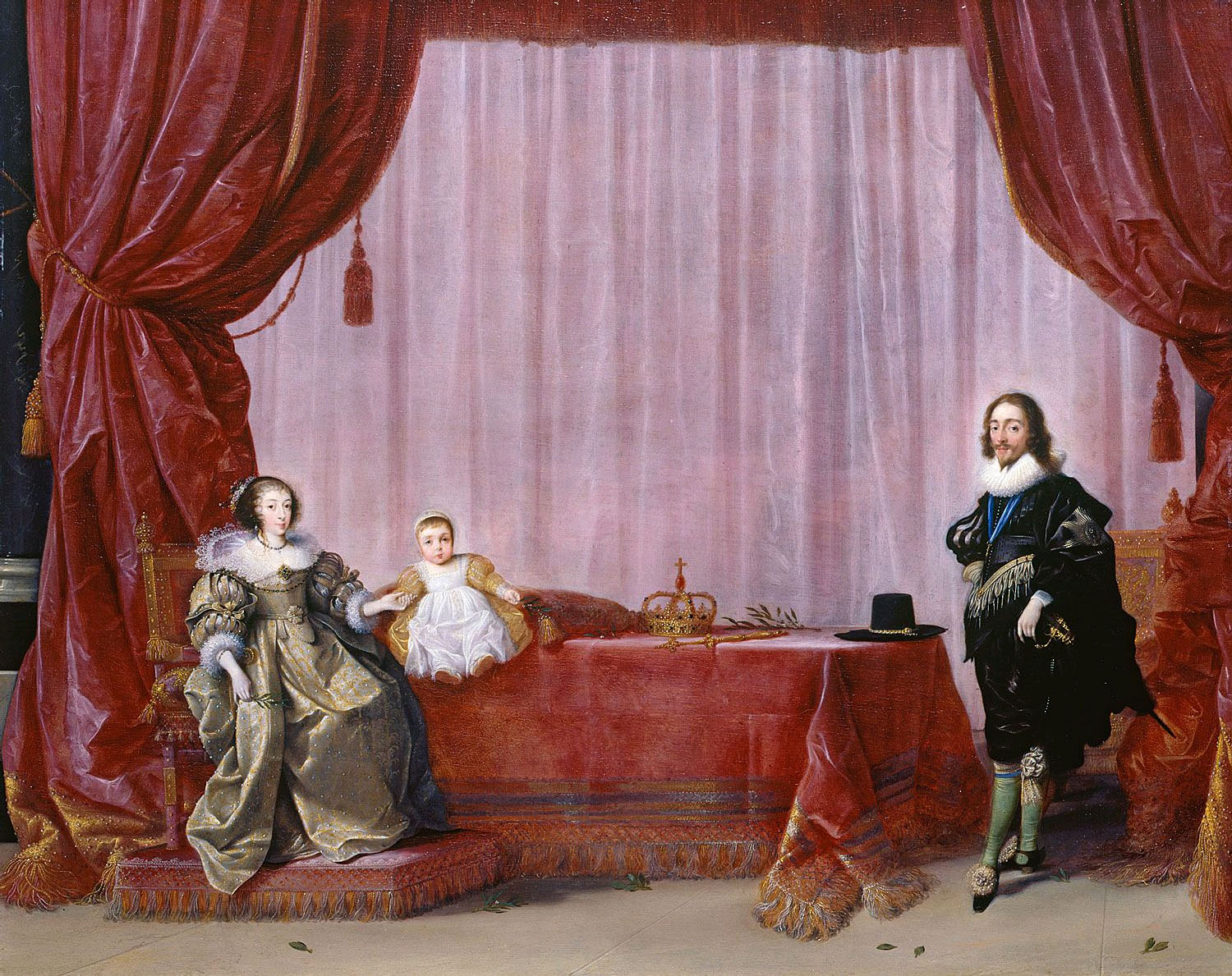 Charles I and Henrietta Maria with their son Charles, Prince of Wales.